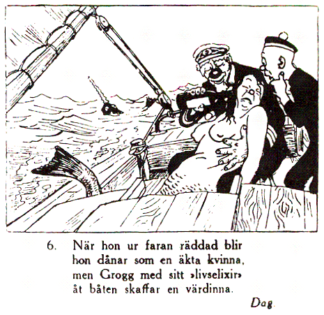 Kapten Grogg, cartoon by Victor Bergdahl, who died 1939. Published 1919.